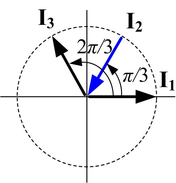 CGKang Image